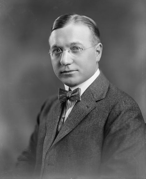 John MacCrate, New York Congressman and Judge